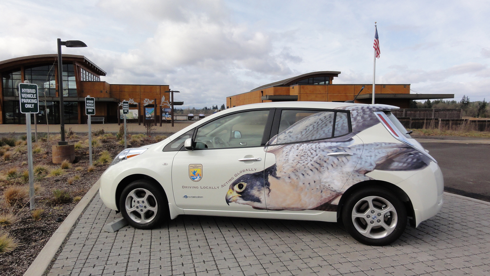 Nissan Leaf part of the U.S. Fish & Wildlife Service - Pacific Region's fleet